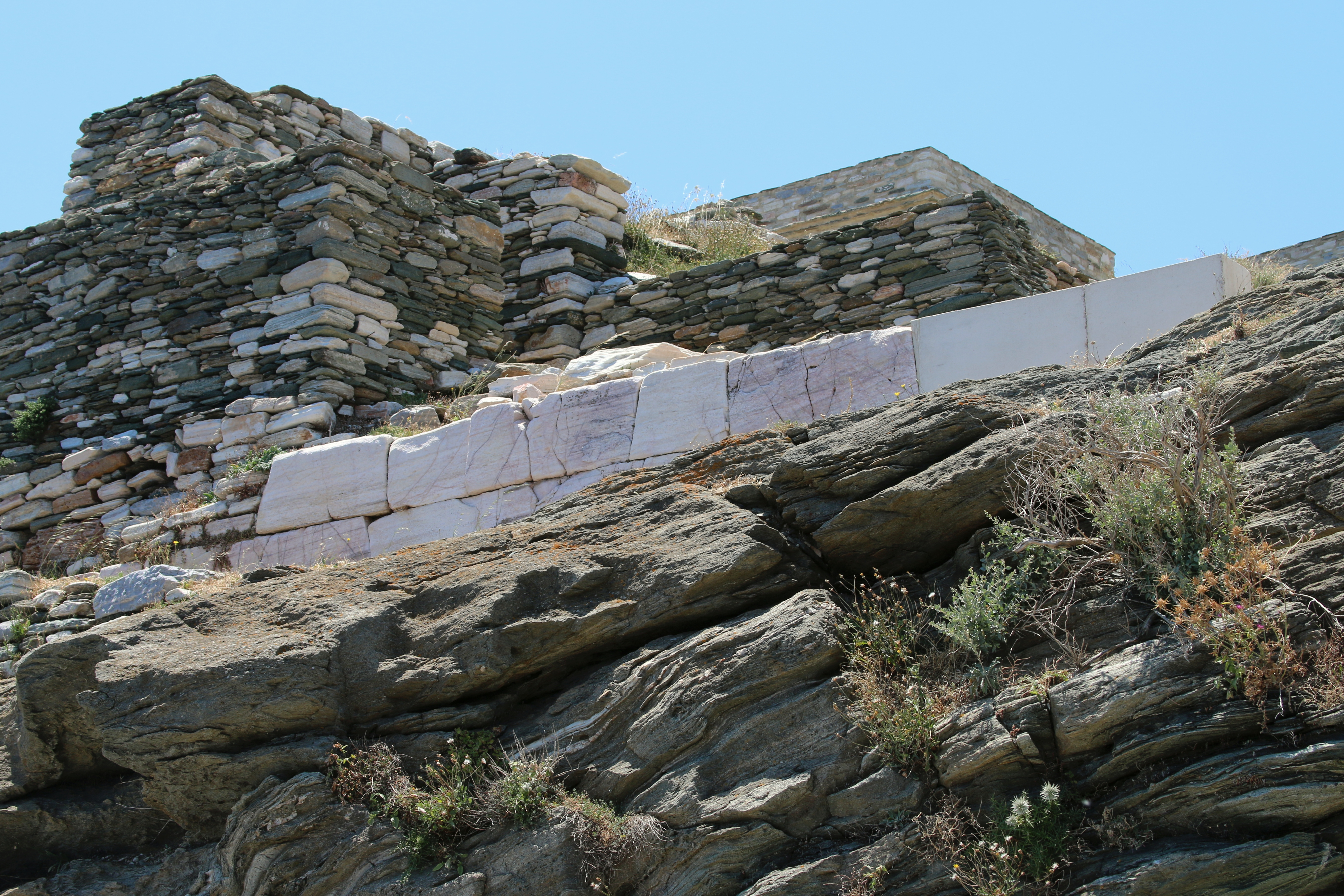 Remnants of the walls of ancient city of Sifnos, late archaic period. Kastro of Sifnos.